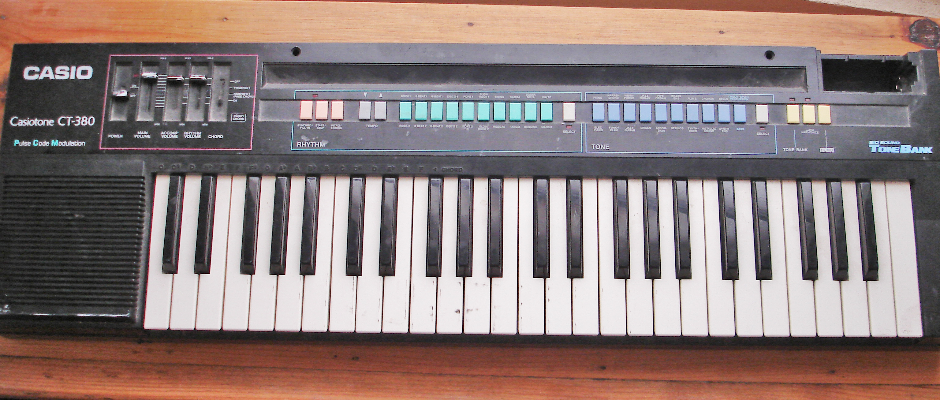 This is a Casio Casiotone CT-380 Keyboard. Photo taken by myself March 17 2007.